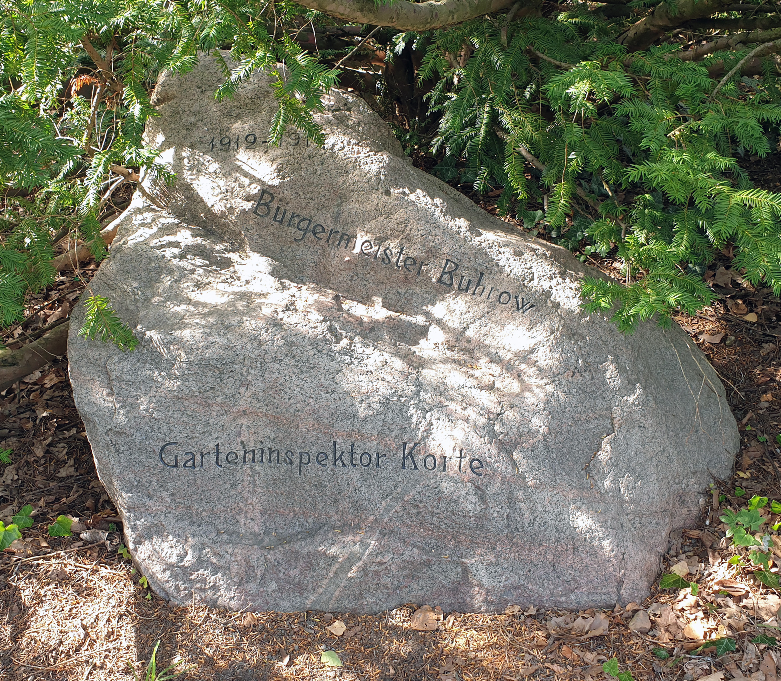 Memorial stone, Karl Buhrow and Rudolf Korte, Stadtpark Steglitz, Berlin-Steglitz, Germany